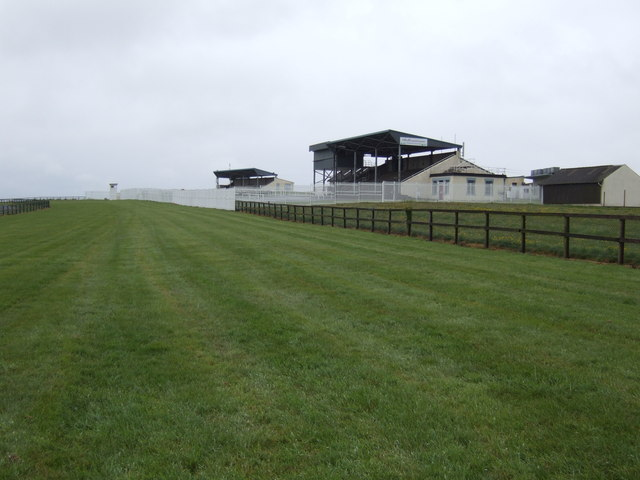 Bellewstown Race Course, from the public road which crosses the course at this point.